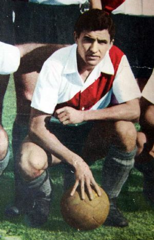 Luis Artime while playing for River Plate